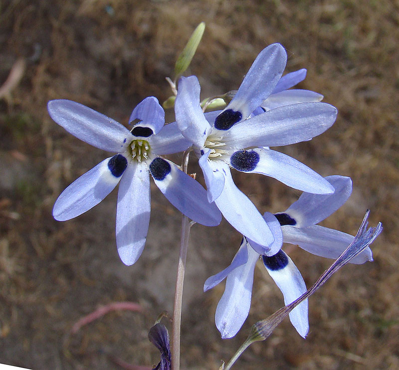 Known as Pajarito del Campo through central and south Chile. In context at